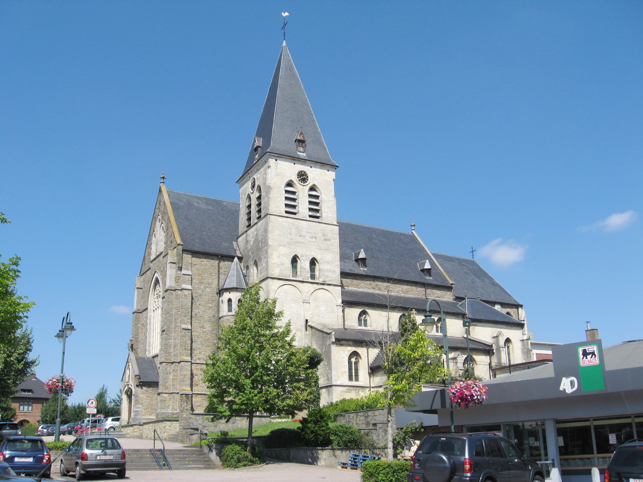 Church of Saint Lambert in Opglabbeek, Limburg, Belgium